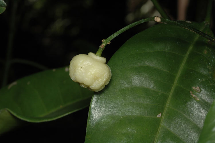 Acronychia acidula fruit in the Australian National Botanic Gardens